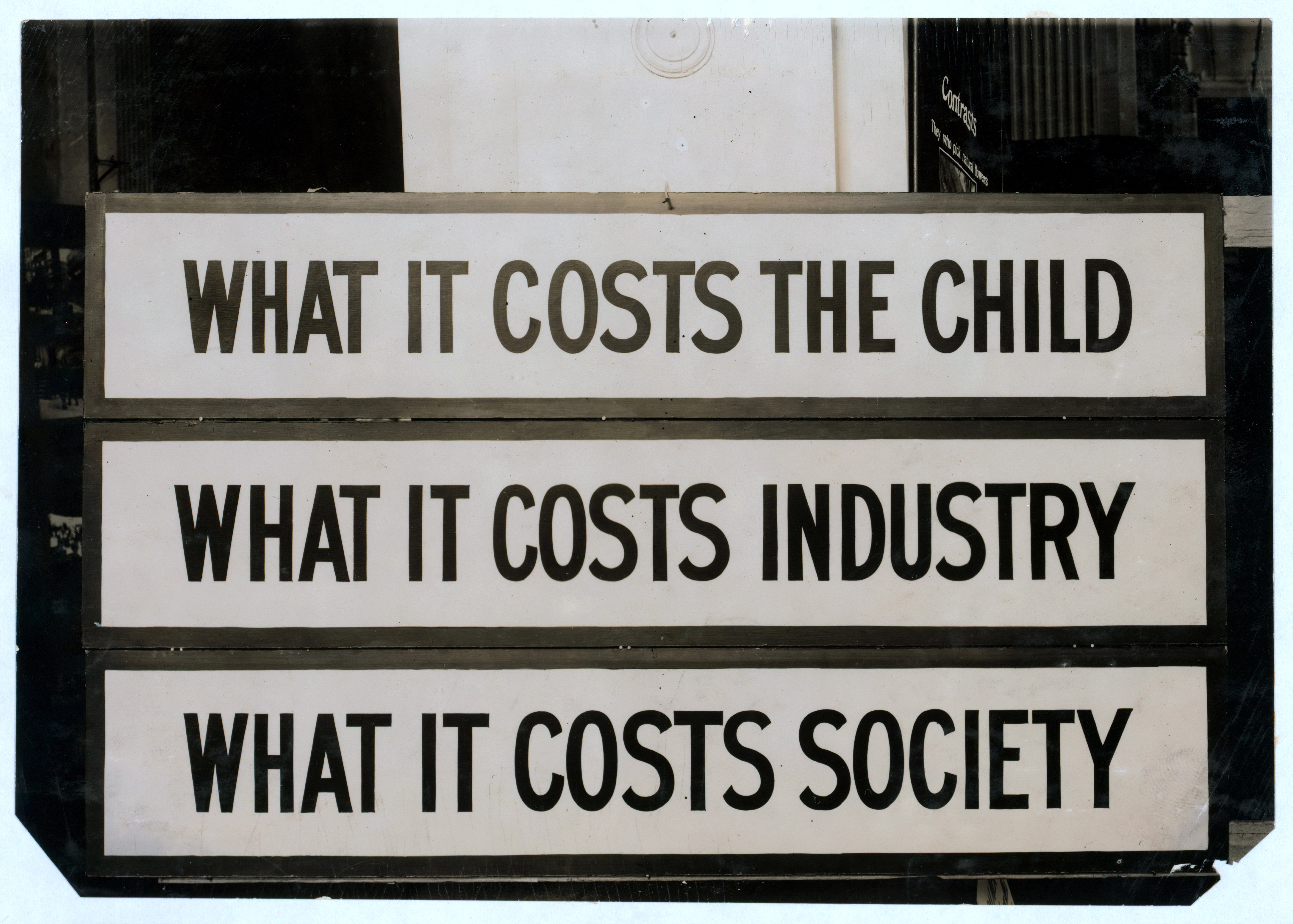 The National Child Labor Committee (NCLC) is a private, non-profit organization founded in 1904 and incorporated by an Act of Congress in 1907 with the mission of promoting the rights, dignity, well-being and education of children and youth as they relate to work and working. The National Child Labor Committee (NCLC) was created as a private, non-profit organization founded in 1904 and incorporated by an Act of Congress in 1907 with the mission of promoting the rights, dignity, well-being and education of children and youth as they relate to work and working. These posters are from 1904 - 1919 period.